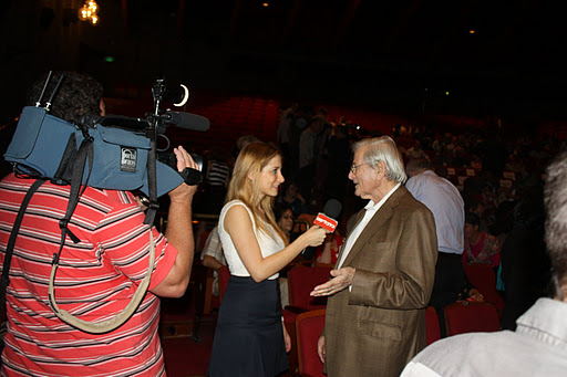 Eli horwitz